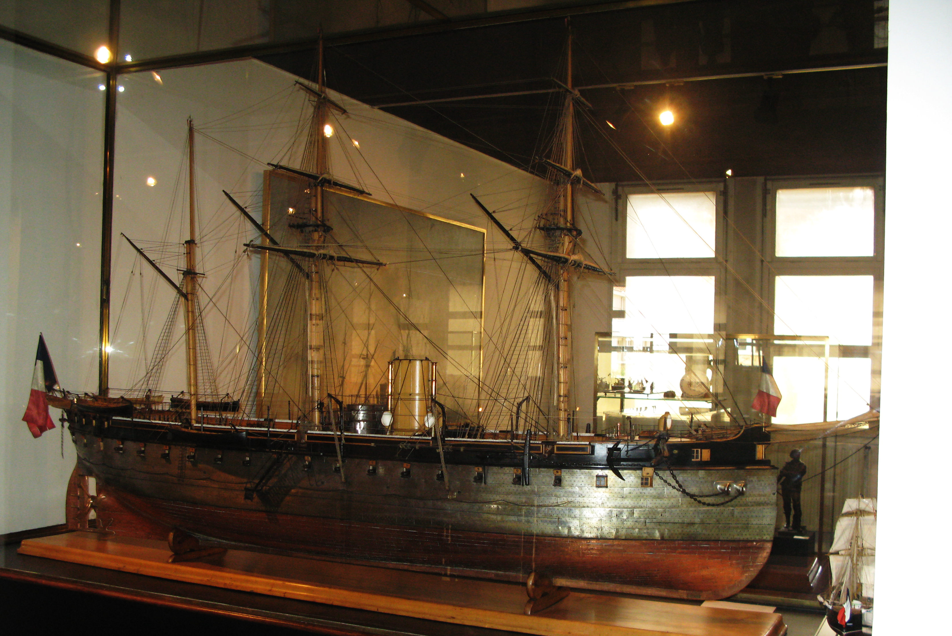 Model of the Flandre, a Provence-class armoured frigate. Anonymous, 1864. [1] On display at Toulon naval museum, access number 25 MG 3